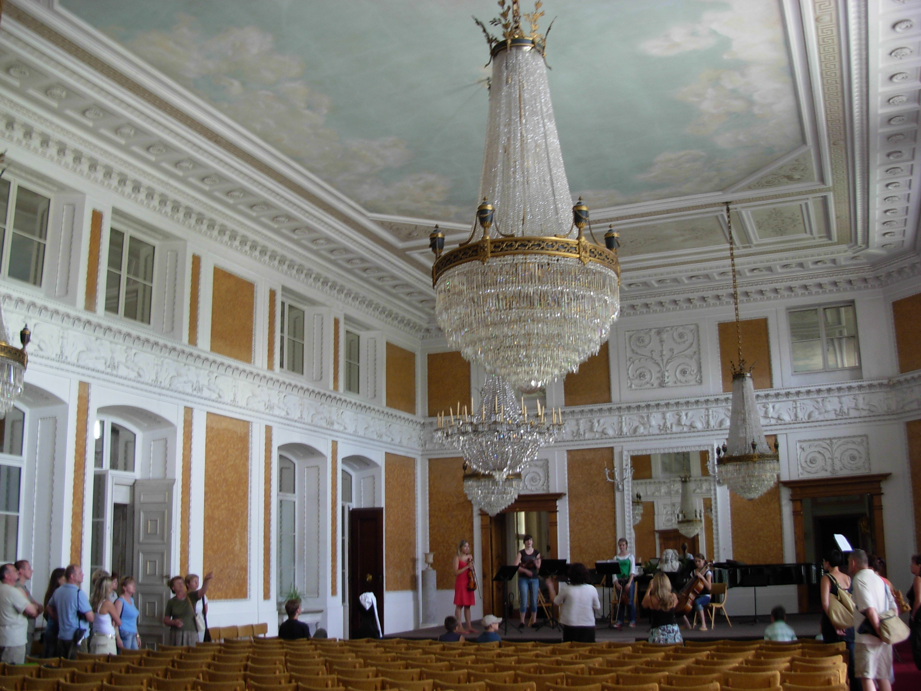 Łańcut Palace dining room. Many photos courtesy of Łańcut Museum staff.